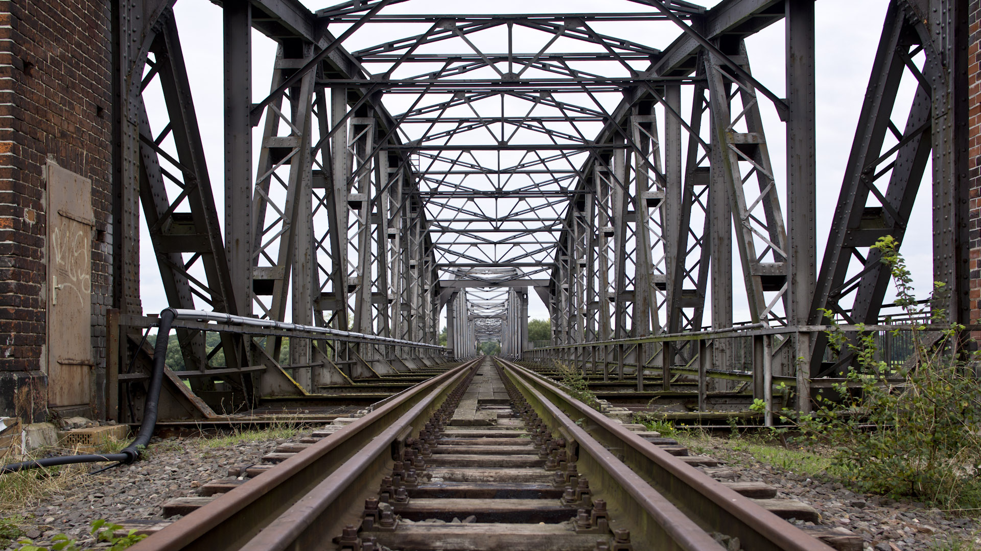 Bridge in Barby